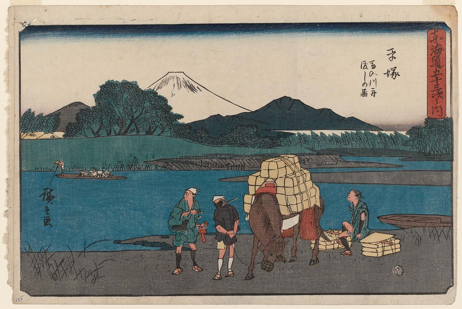 Hiratsuka, Ba'nyû-gawa funewatashi no zu; Gyôsho Tôkaidô